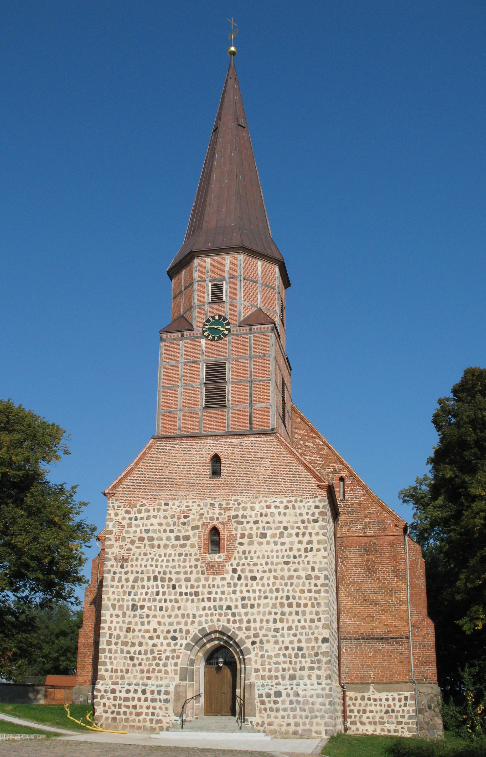 Church in Woldegk in Mecklenburg-Western Pomerania, Germany